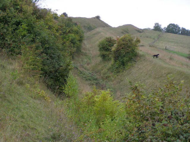 Northern side of the hillfort on Hod Hill. Looking along the northern side of the iron age hillfort, with the inner rampart on the left, the ditch in the middle and the outer rampart on the right (with the dog standing on it). The Roman second legion captured the hillfort in AD43 and built a smaller camp within the hillfort's northwest corner (the highest part of the hill, seen in the distance on the left).